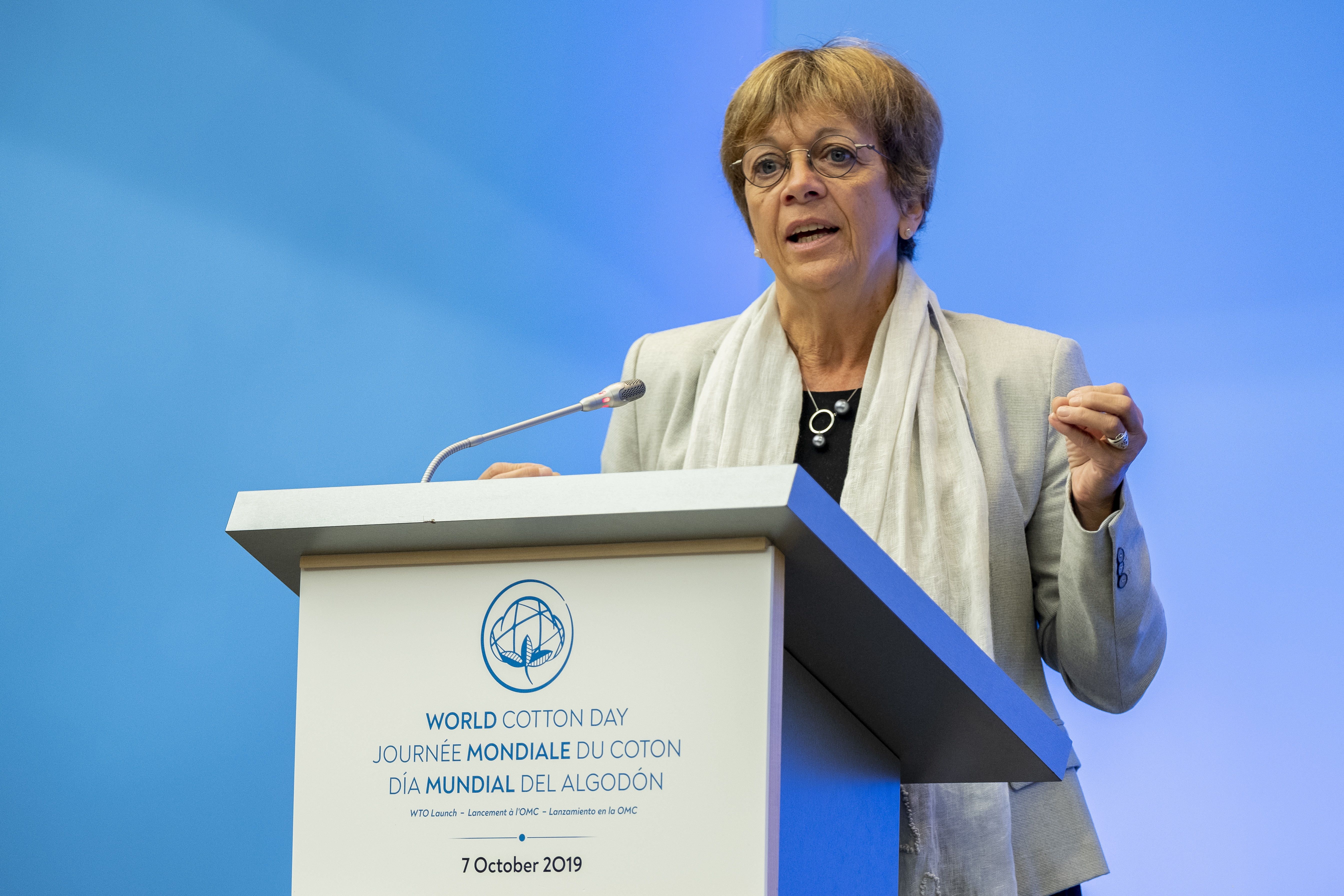 UNCTAD Deputy Secretary-General Isabelle Durant speaking at the World Trade Organization's World Cotton Day celebration on 7 October 2019. Photo: Tim Sullivan (UNCTAD)